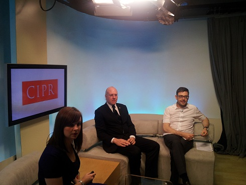 This photo was taken at the studio in London. It shows (L–R) Gemma Griffiths, David Gerard and Philip Sheldrake about to debate the relationship between Wikipedia and the PR industry for a CIPR TV webcast.